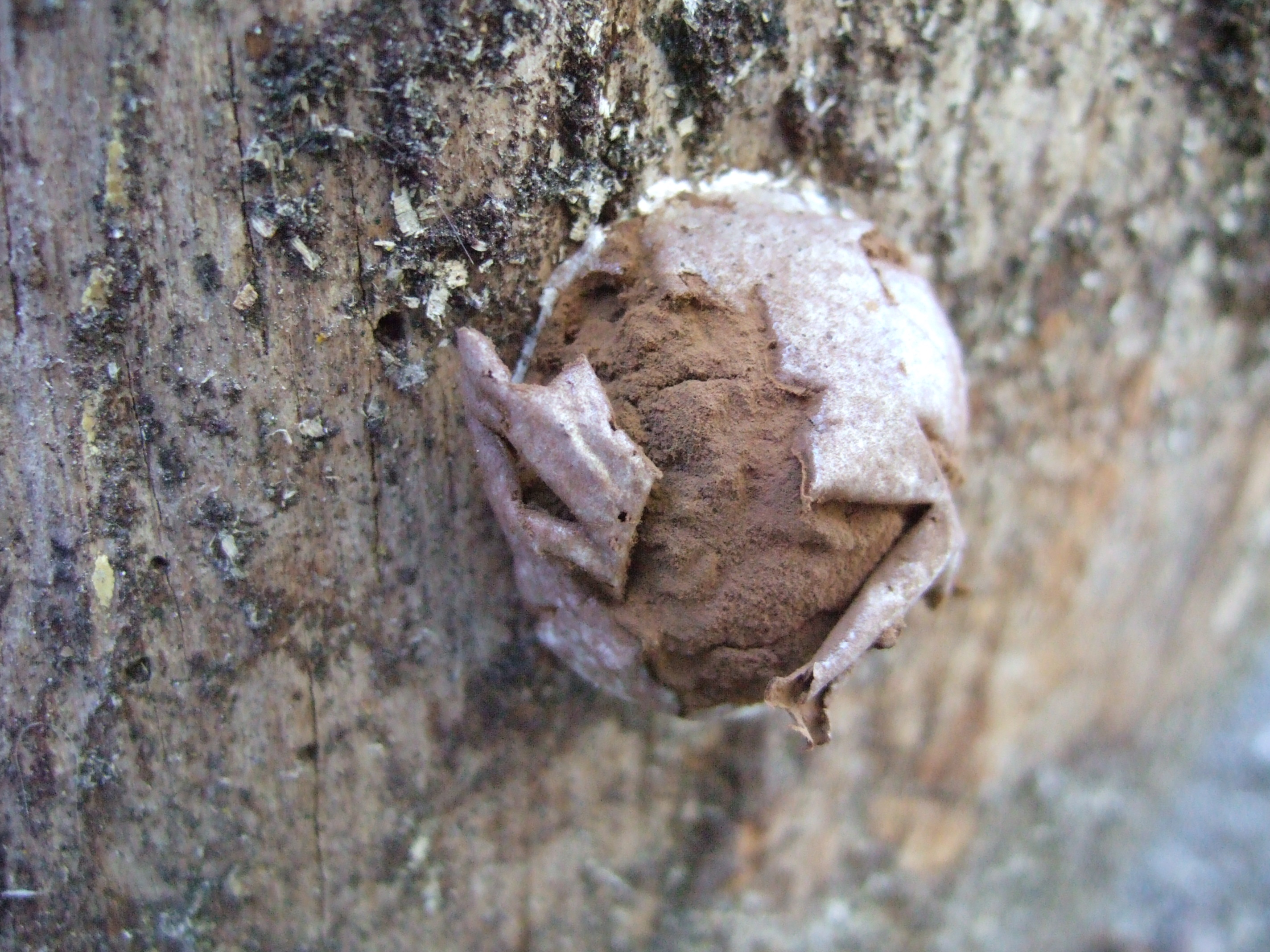 Japanese common name:??????????